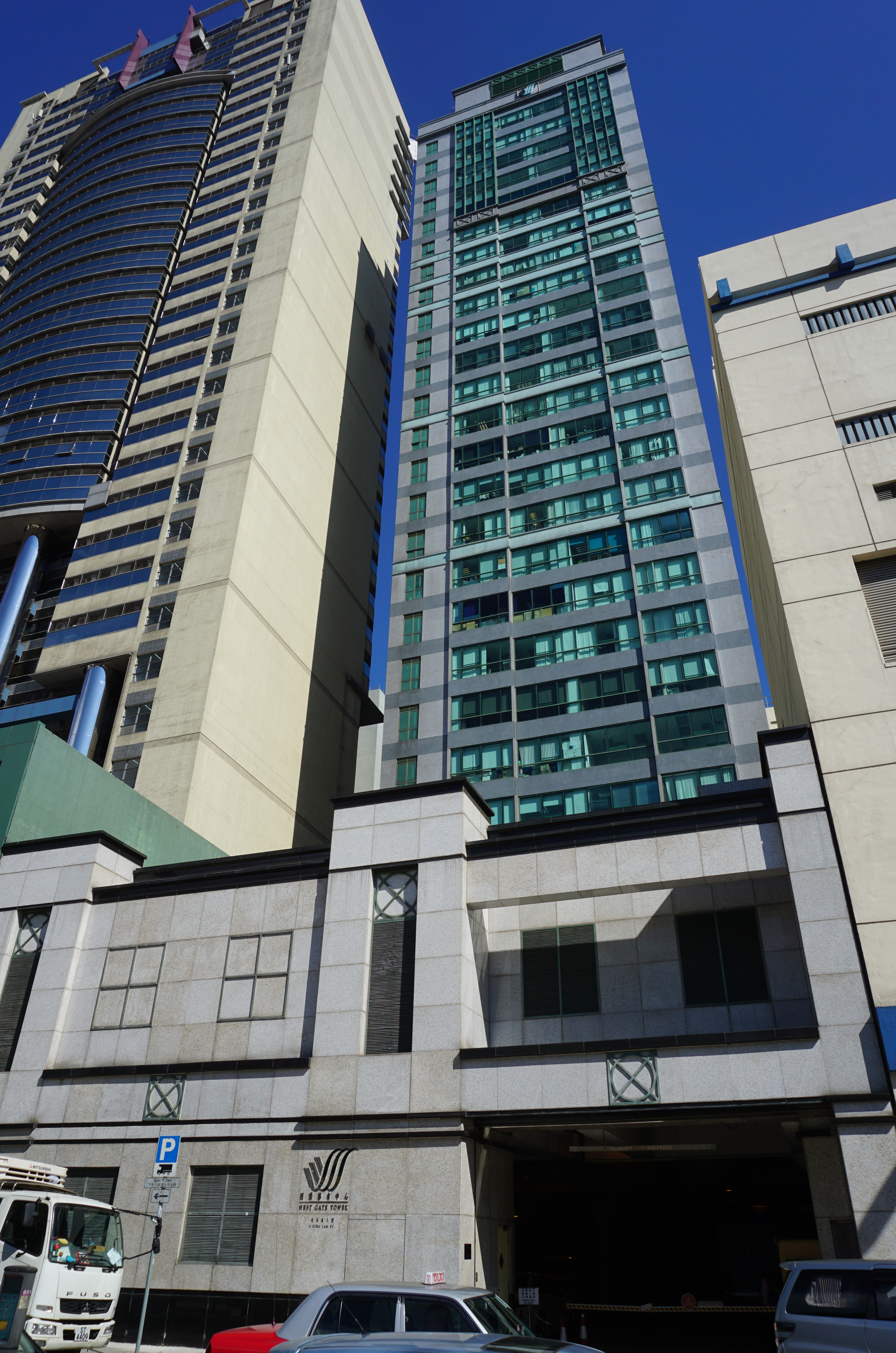 West Gate Tower in Lai Chi Kok, Hong Kong.